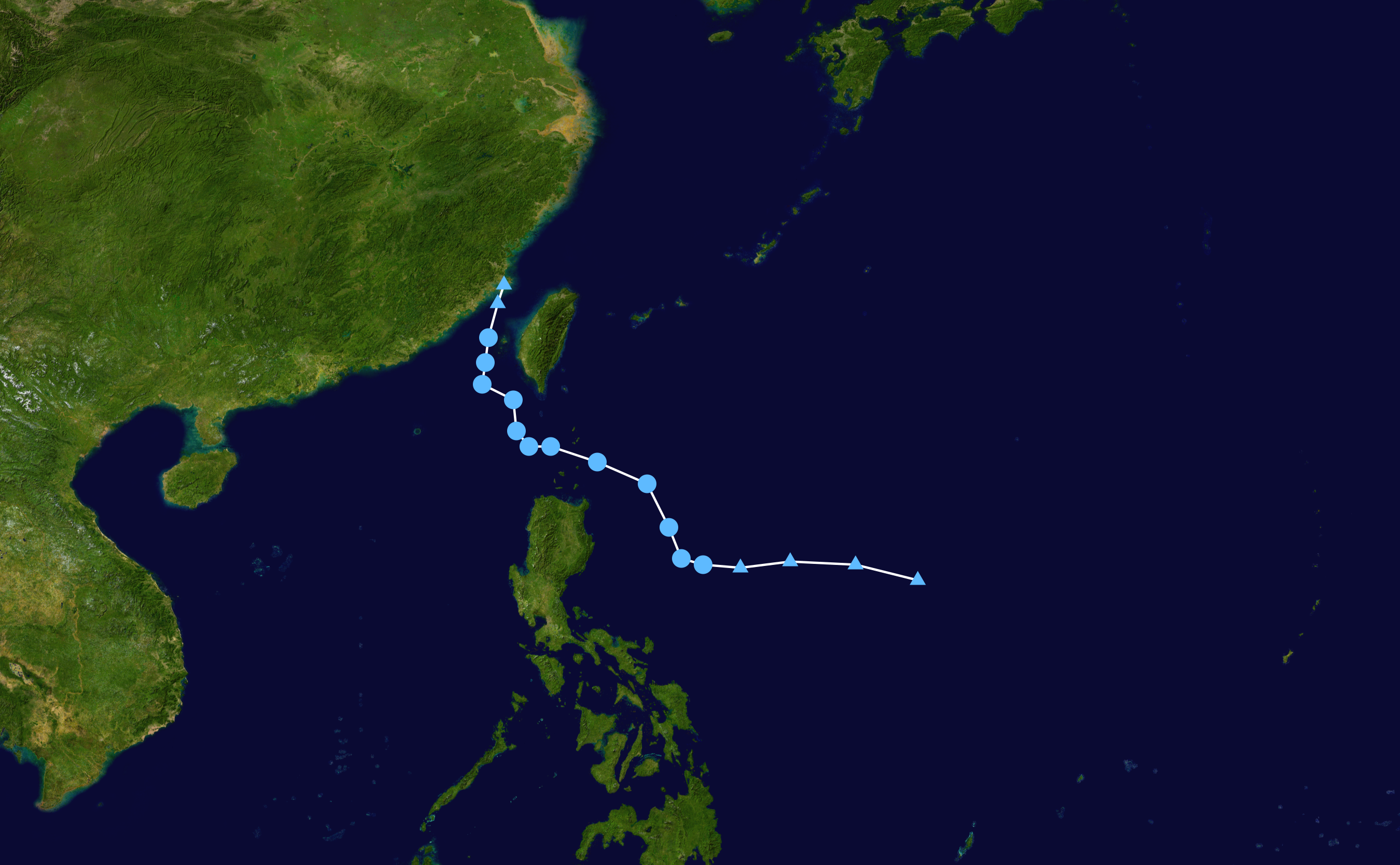 Track map of Tropical Storm Guchol of the 2017 Pacific typhoon season. The points show the location of the storm at 6-hour intervals. The colour represents the storm's maximum sustained wind speeds as classified in the Saffir–Simpson scale (see below), and the shape of the data points represent the nature of the storm, according to the legend below. Saffir–Simpson scale Tropical depression≤38 mph≤62 km/h Category 3111–129 mph178–208 km/h Tropical storm39–73 mph63–118 km/h Category 4130–156 mph209–251 km/h Category 174–95 mph119–153 km/h Category 5≥157 mph≥252 km/h Category 296–110 mph154–177 km/h Unknown Storm type Tropical cyclone Subtropical cyclone Extratropical cyclone / Remnant low / Tropical disturbance / Monsoon depression